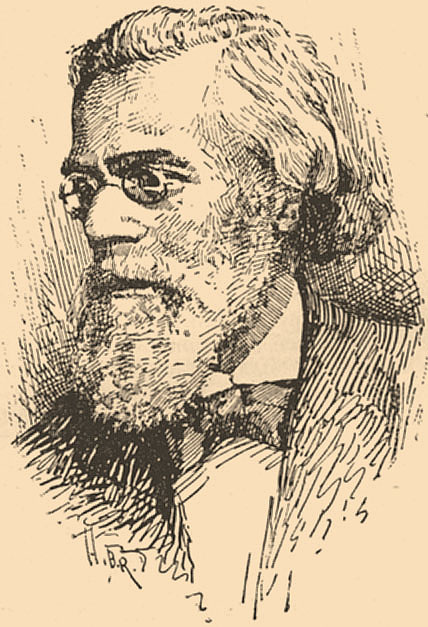 Illustration from Brockhaus and Efron Jewish Encyclopedia (1906—1913). Heymann Steinthal.